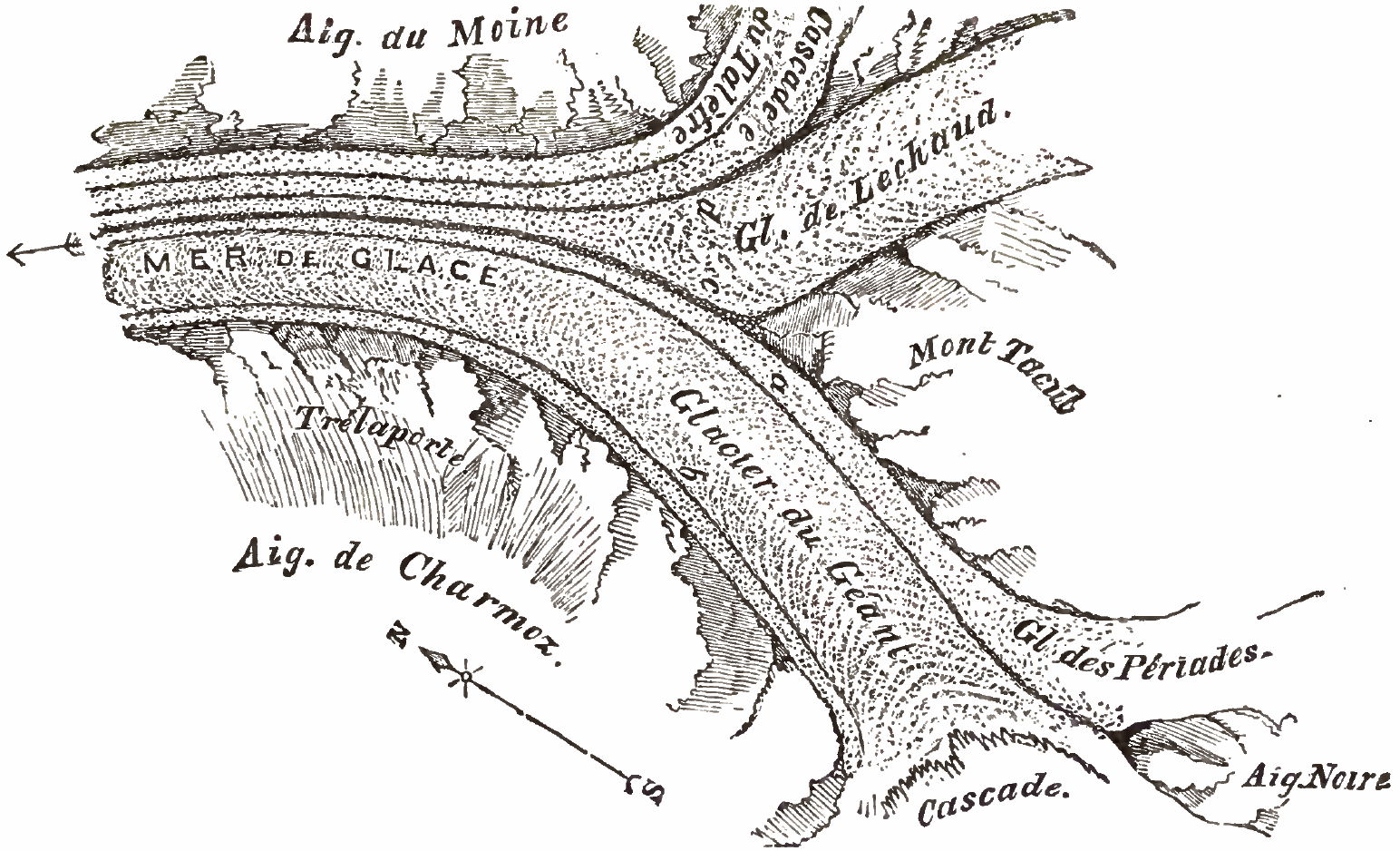 Mer de Glace sketchmap by John Tyndall, 1857 Fig. 7[1] shows Aiguille Noire to the south (bottom-right) dividing the Cascade at the west (bottom) from Glacier des Périades (right) which flows north to join Glacier du Géant flowing south to north (14 degrees clockwise) between Mont Tacul on the east (centre right) and Aiguilles de Charmoz to the west (bottom alongside morraine 'b'). This forms the medial morraine 'a'. Some 3 kilometres downstream, Glacier de Lechaud joins du Géant, forming medial morraine 'c'. Just prior to this confluence, Cascade du Talèfre, with its own medial morraine 'e', joins Lechaud forming morraine 'd'. Here the glacier is known as the Mer De Glace and flows north-north-west (leftwards) between Aiguille du Moine on the east and Trélaporte on the west. Notes ↑ Tyndall page 53 "Fig 7." References John Tyndall (1896) The Glaciers of the Alps, Longmans, Green and Co. Retrieved on 29 February 2008.